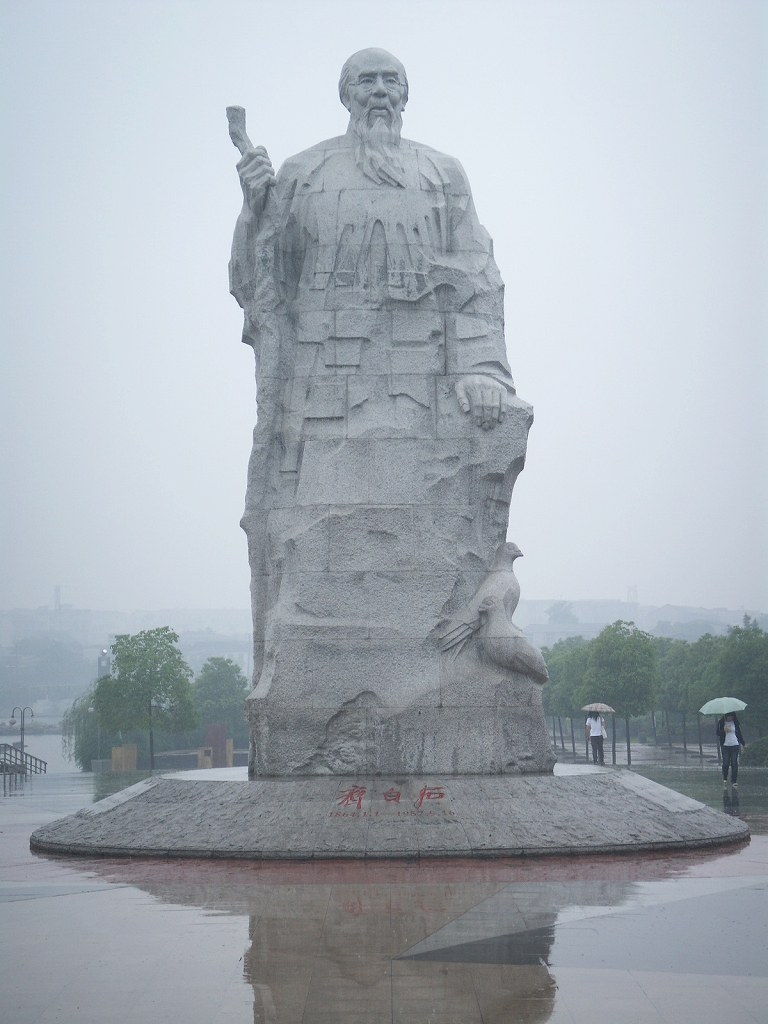 Monument to Qi Baishi in Qi Baishi Park, Xiangtan, Hunan province, China